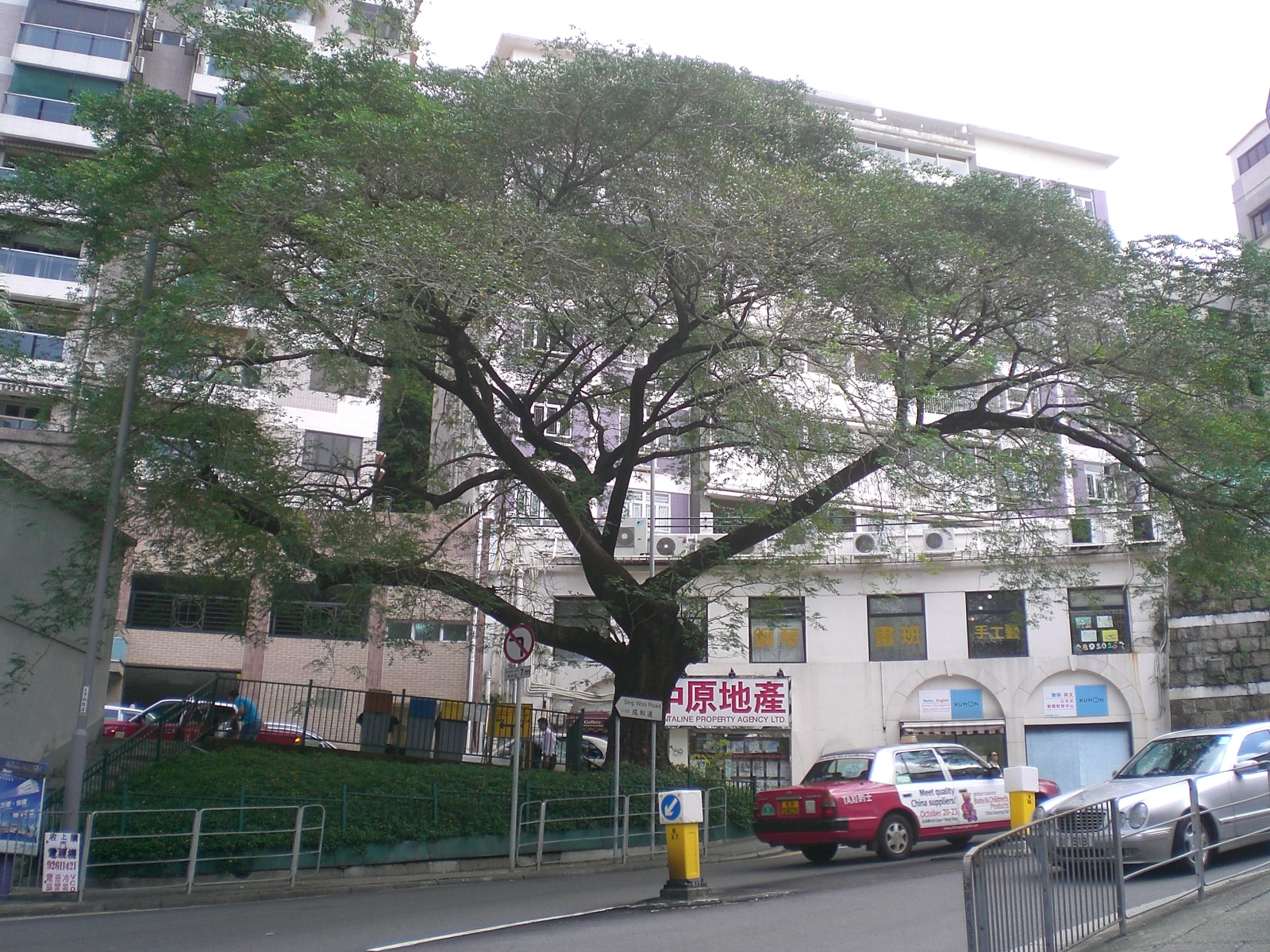 跑馬地zh:成和道